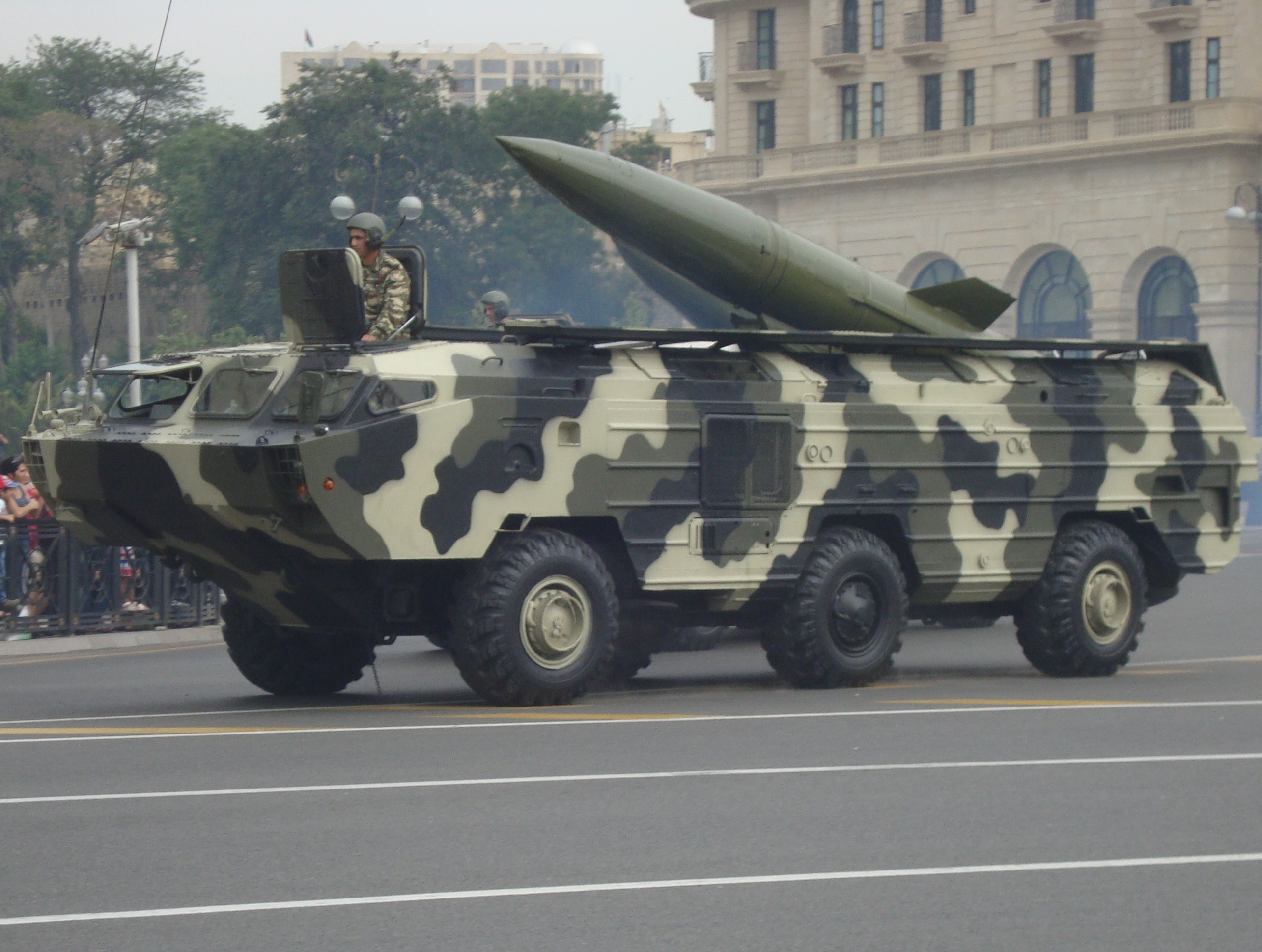 Azeri Tochka-U